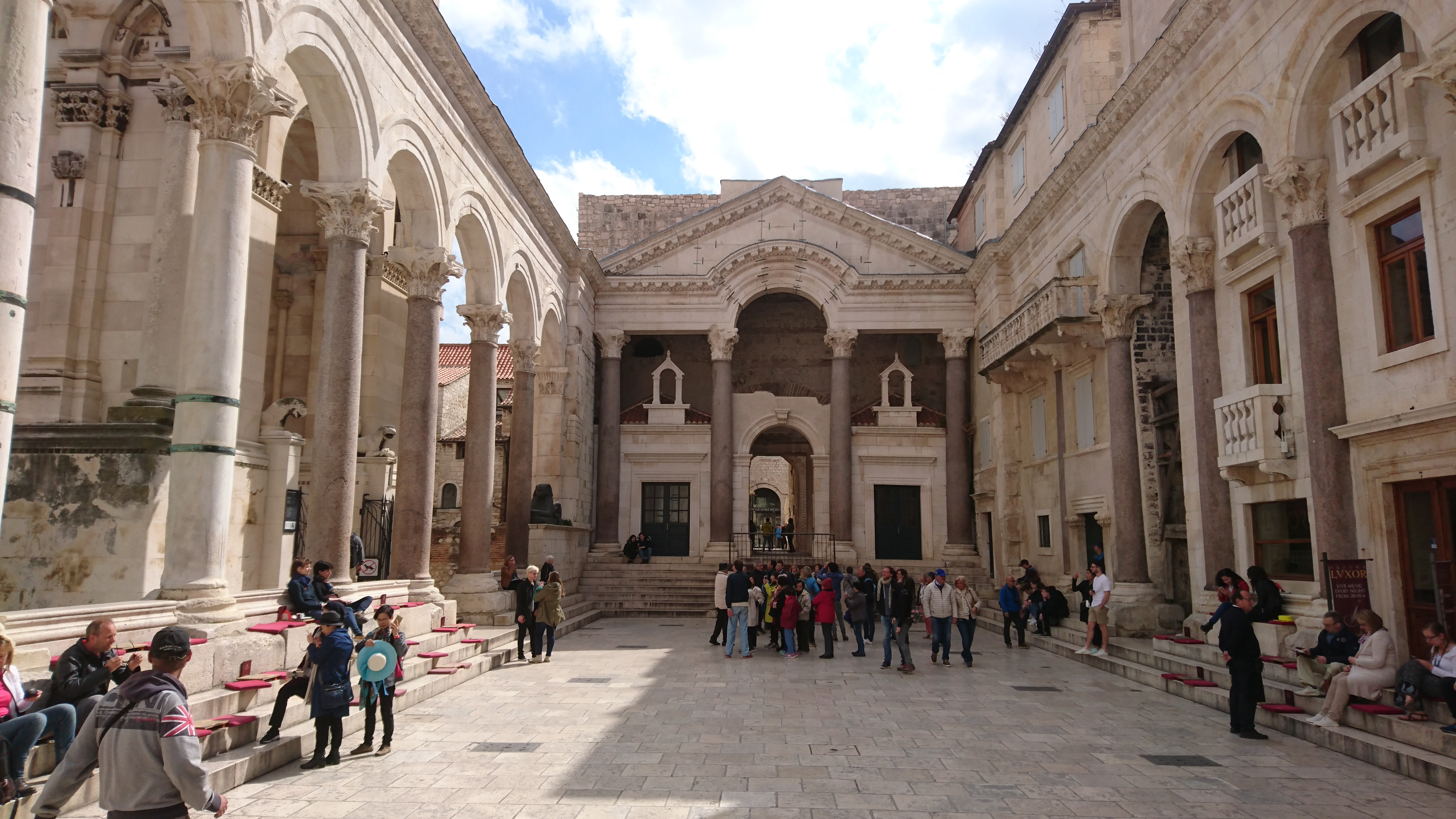 Kulturno povijesna cjelina